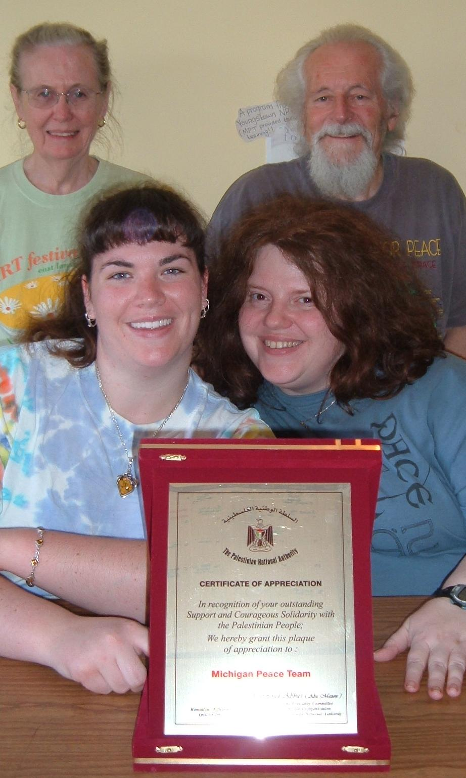 Michigan Peace Team (now Meta Peace Team) members Mary L. Hanna, Peter Dougherty, Maurya Orr, and Mary Ellen Jeffrys smile as they sit and stand around a certificate of appreciation received from the Palestinian National Authority in 2007.